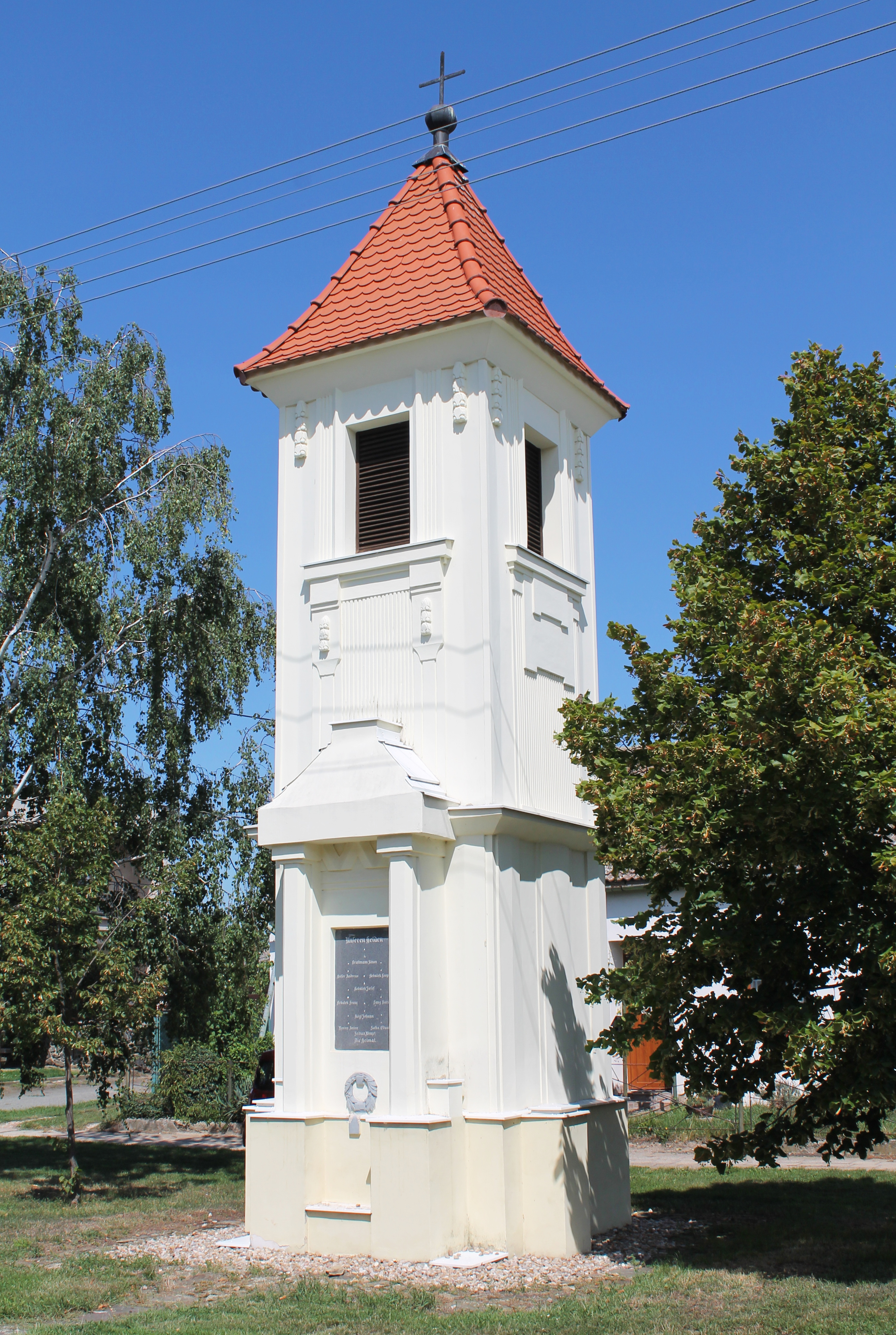 Bell tower, Kašenec, Miroslav, Znojmo District, Czech Republic